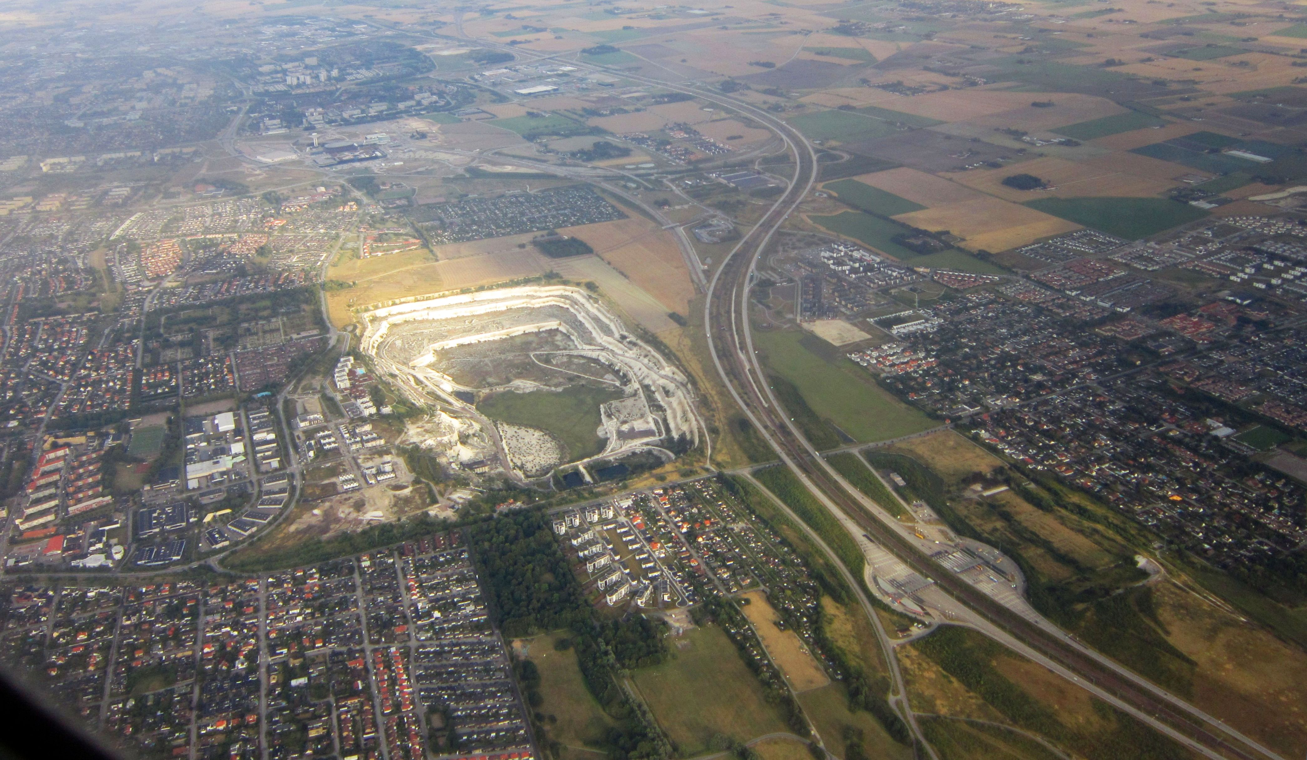 Aerial view of Limhamns kalkbrott. The neighborhood to the left of the motorway (European route E20) is Limhamn, the one to the right is Bunkeflostrand. Toll station for entering Øresund Bridge is visible in the foreground, and Malmö Arena's mushroom-shaped tower -- in the background.